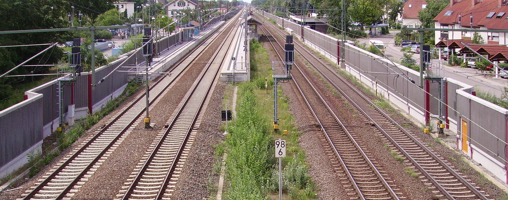 view of Limburgerhof, Germany